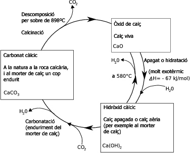 Translated by me from public domain image in german wikipedia. Original file: Bild:Kalkkreislauf.png, with public domain license. I can provide the image in Photoshop format with text layers to ease translation (upon request).